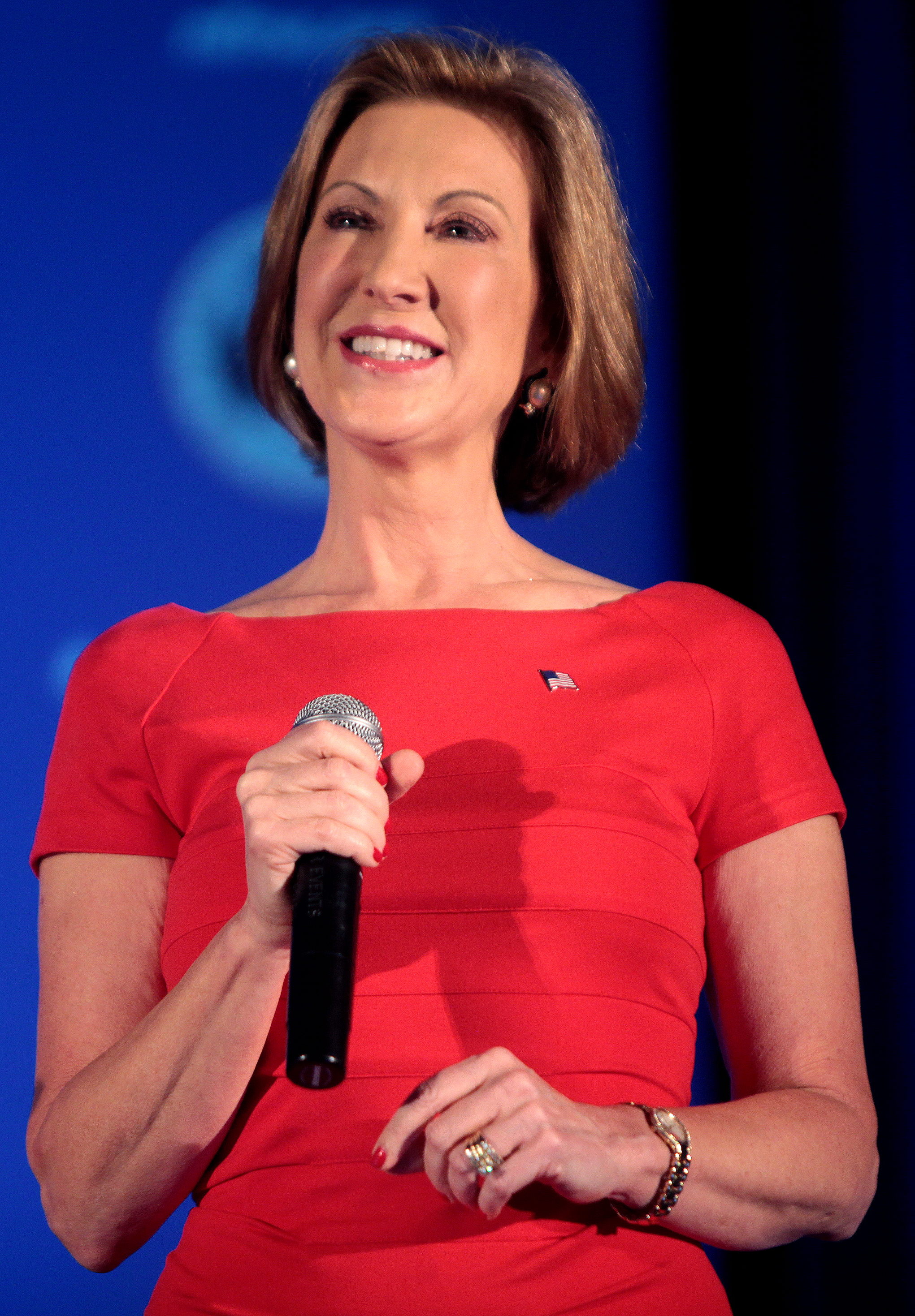 Carly Fiorina speaking at the National Federation for Republican Women's Biennial Convention in Phoenix, Arizona.